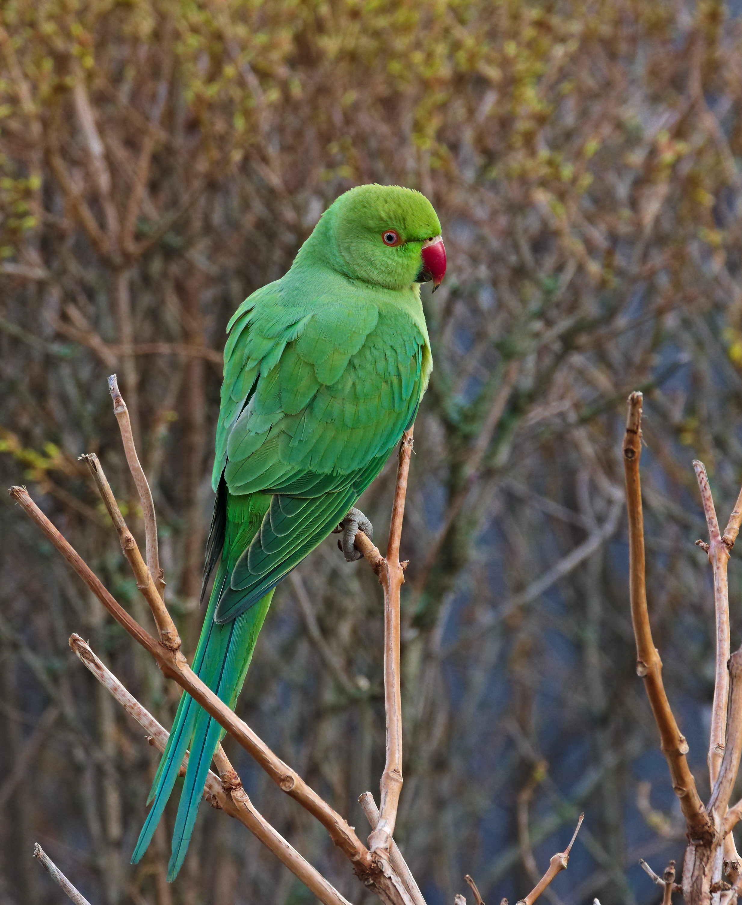 Rose-ringed parakeet - Psittacula krameri, female. Taken in Mannheim-Vogelstang, Baden-Württemberg, Germany.